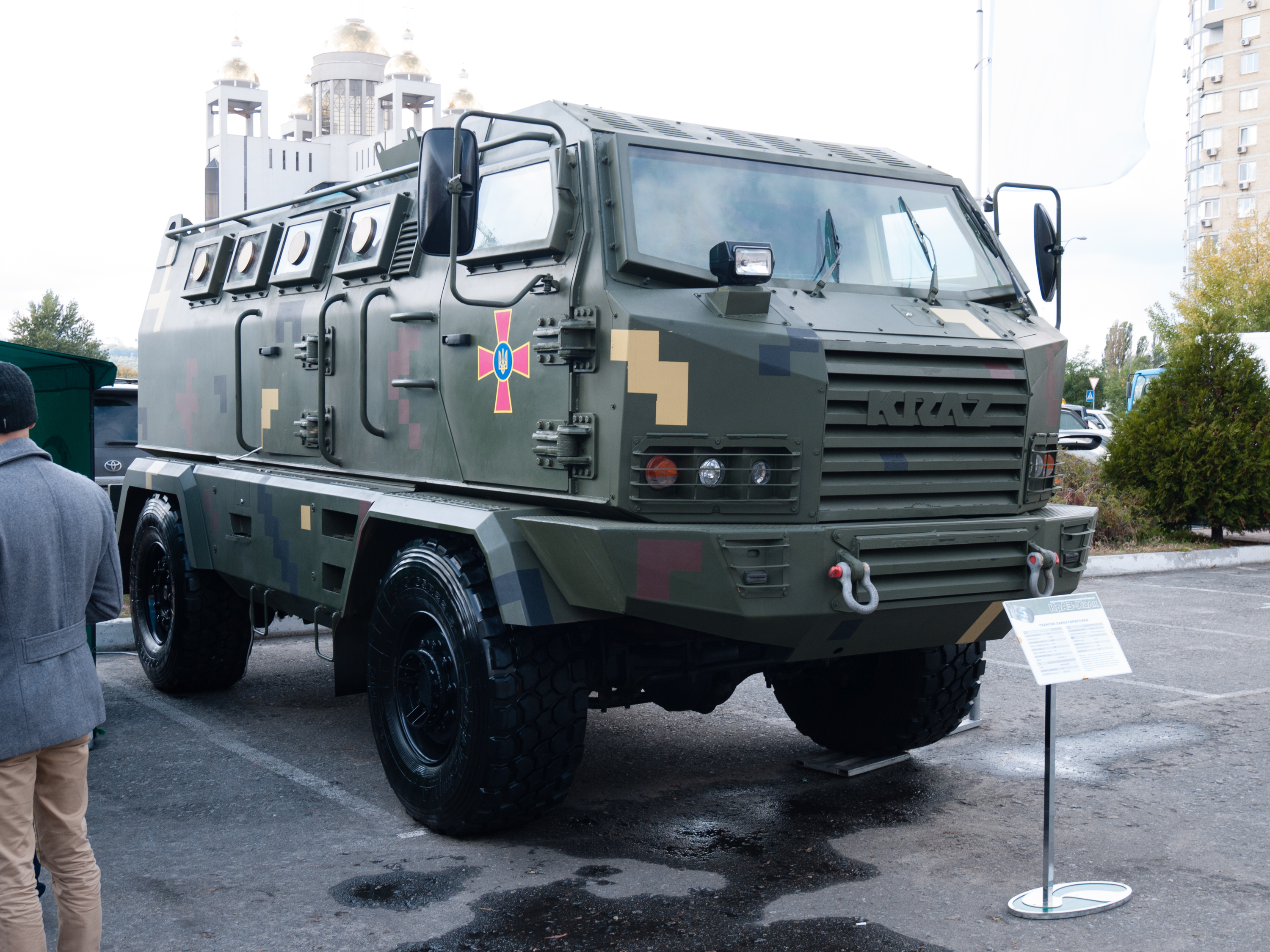 KrAZ Hulk armored vehicle (Ukraine)